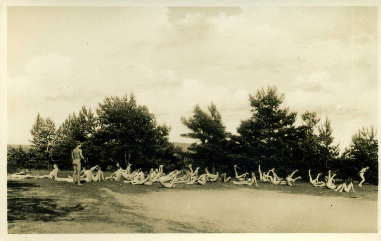 information about this nudist camp is rather sparse. Apparently fishing was also offered. I have another postcard showing cabins in the snow Reached from Berlin by way of the [� �] Die Königs Wusterhausen-Mittenwalde-Töpchiner Kleinbahn (also reached from Berlin Neukoelln by the Neukölln-Mittenwalder Eisenbahn) The colony was opened in 1919 - the first one in the Berlin area, and was probably very popular in the late 20s and early 30s. There are still three nudist clubs here at Motzen See. A little bit more info is [� �] The owner was called Fedor Fuchs. There is an article on the camp in the contemporary early 1930s journal [� �], Laughing Life. (no laughing matter) In this University of Missouri [� �] there is a reference to a female alumnus of that University and Hobo (!!!) called Jan Gay (On Going Naked, Garden City Press 1932) visiting here and likening it to a naked Coney Island. (!) The visitors were apparently working class and unemployed. Other colonies here were called Birkenheide,Neusonnland and Märchenwiese. Fuchs edited a journal called Nackt-Sport. Apparently FKK didn't quite end in 1933. See also [� �]